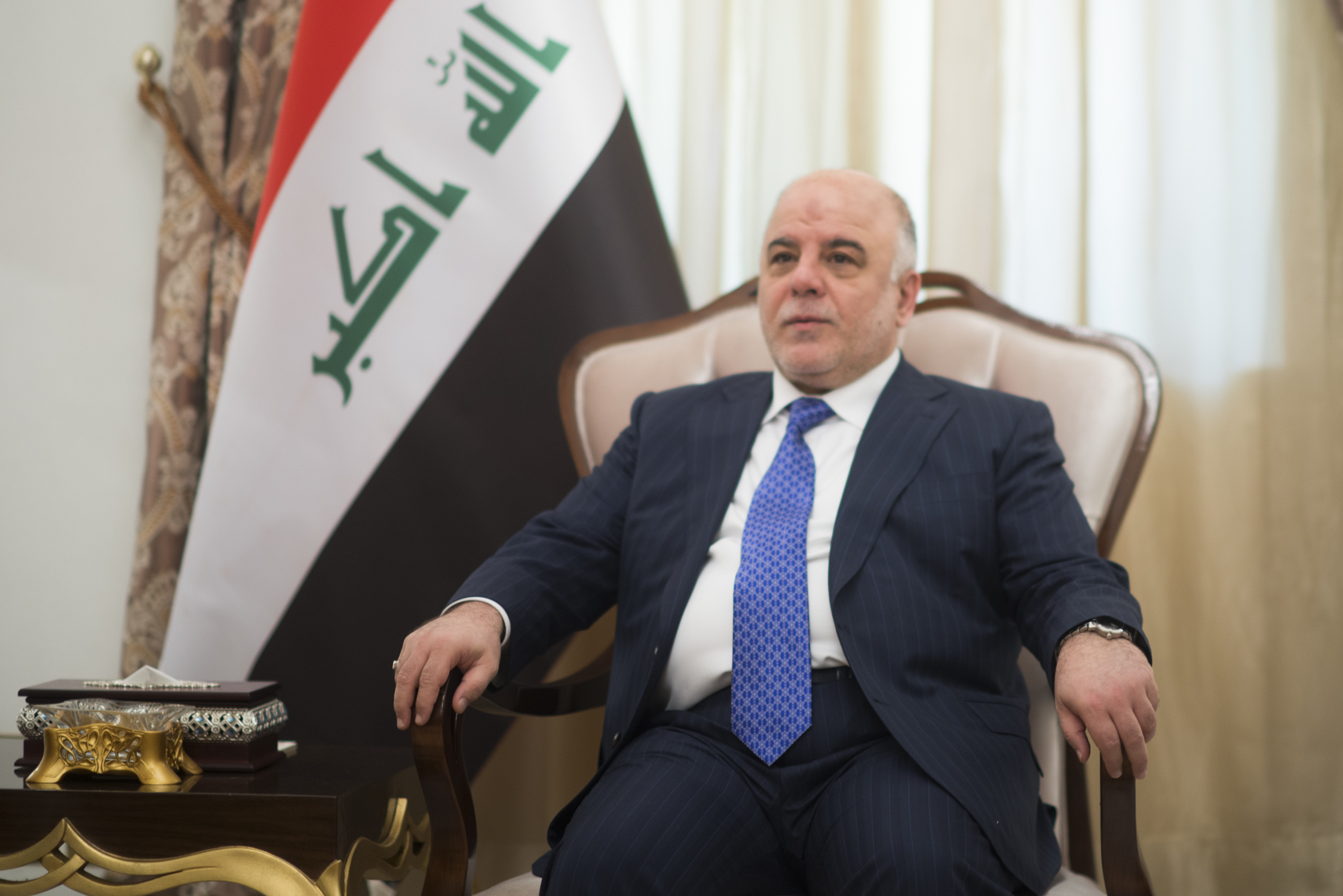 Prime Minister of Iraq Haider al-Abadi and Chairman of the Joint Chiefs of Staff Gen. Martin E. Dempsey met in Baghdad, Iraq, March 9, 2015. (DOD photo by D. Myles Cullen/Released)